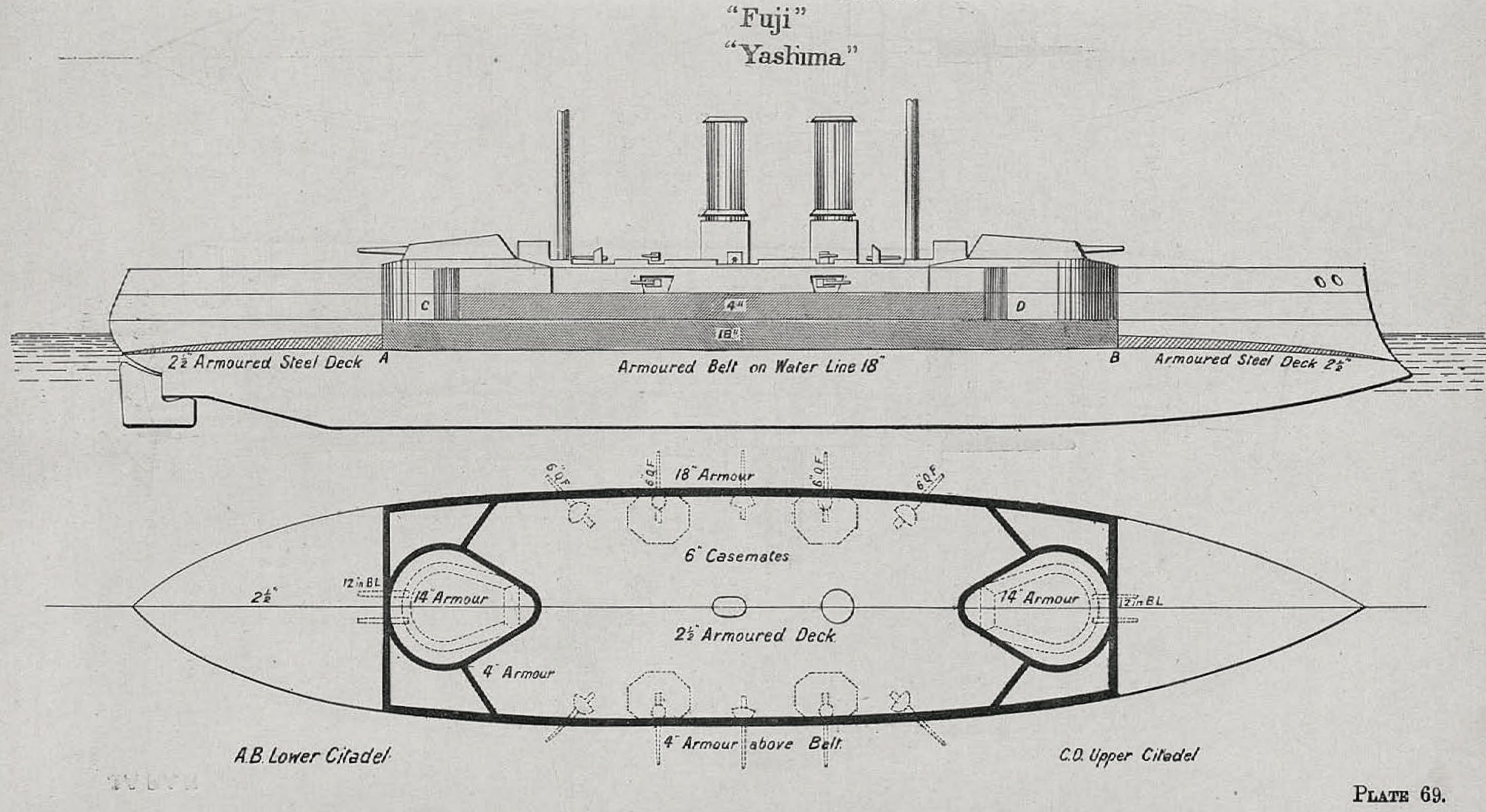 Right elevation and deck plan depicting Japanese Fuji class battleship.